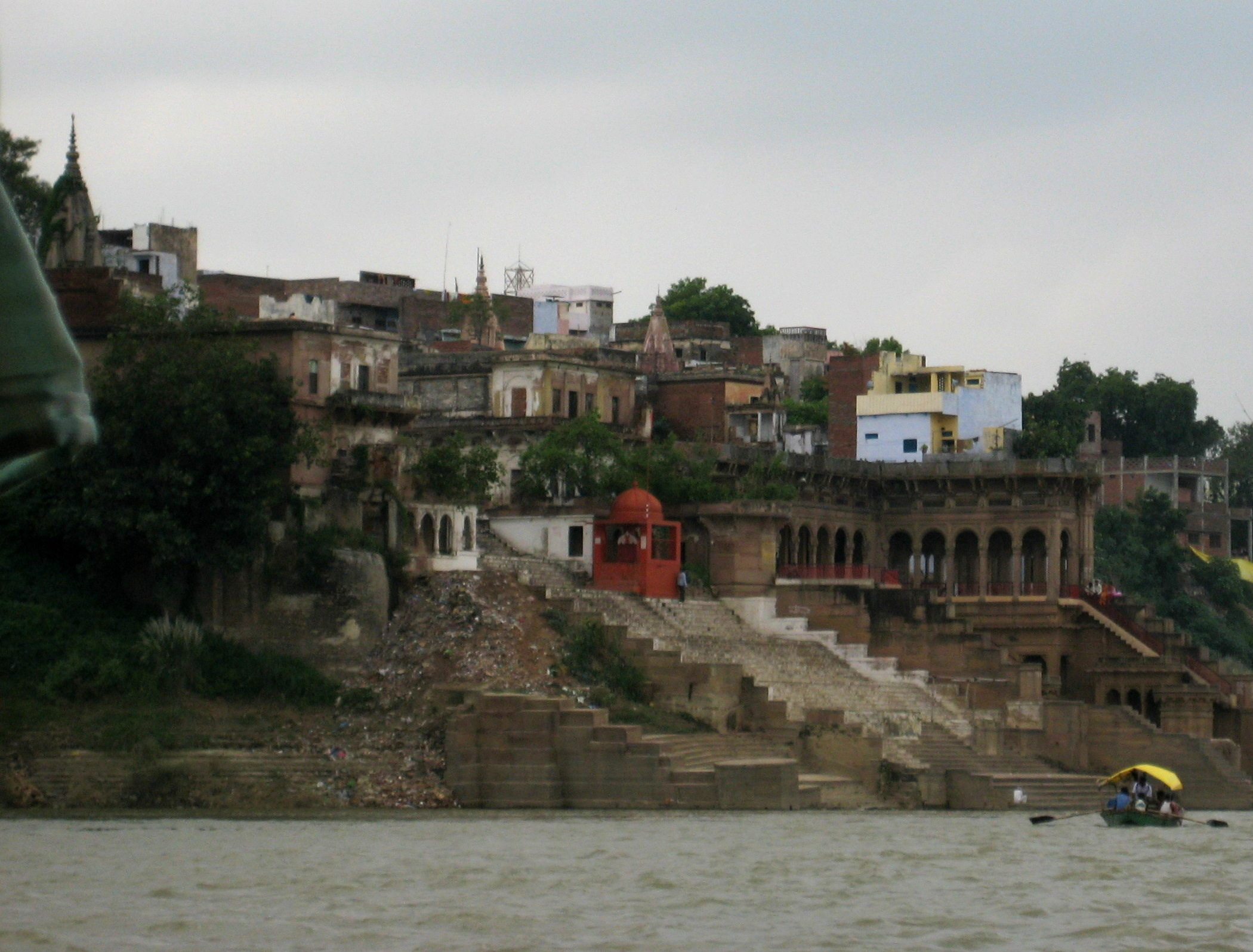 Mirzapur